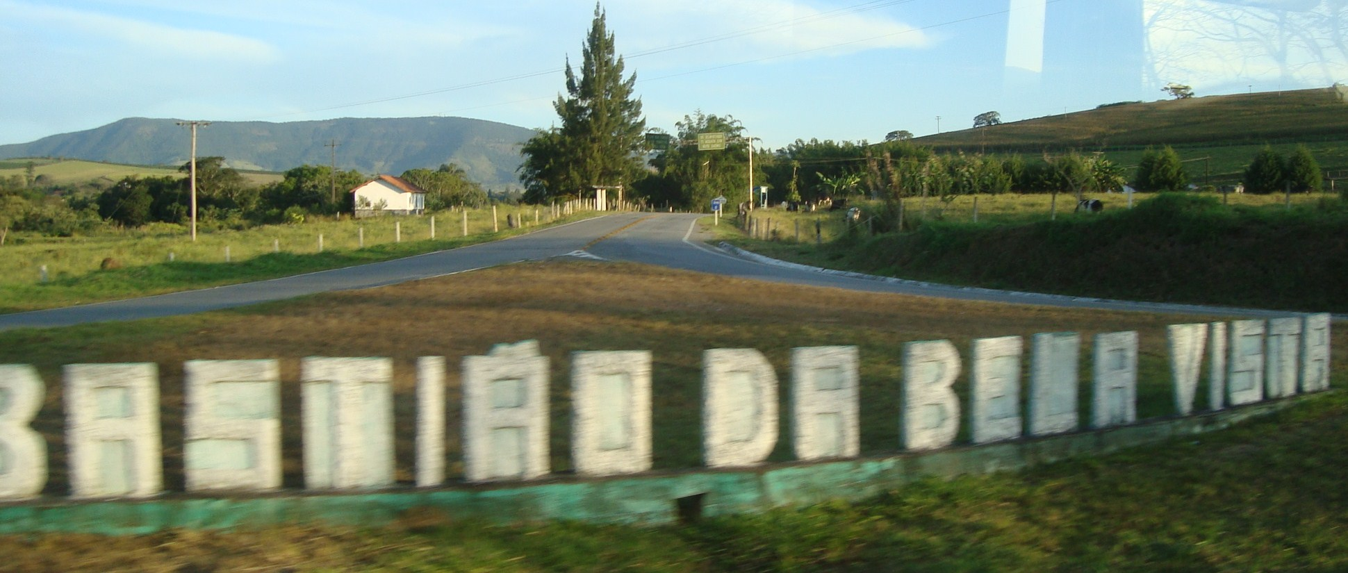 Road AMG-1920 in Sao Sebastiao da Bela Vista, Minas Gerais, Brazil